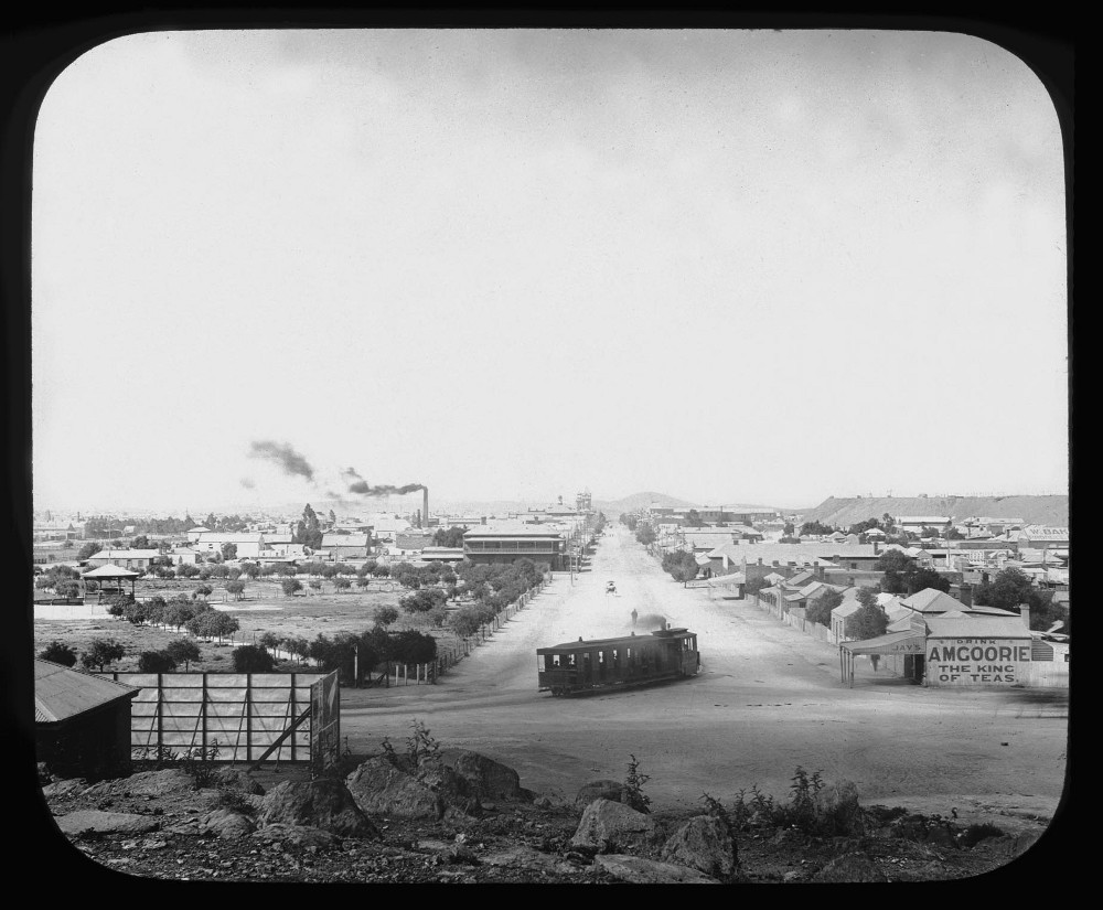 Title: Tram turning into Argent Street, Broken Hill (NSW) Dated: by 11/05/1908 Digital ID: 14086_a005_a005SZ846000032r Rights: We'd love to hear from you if you use our photos/documents. Many other photos in our collection are available to view and browse on our website using Photo Investigator.